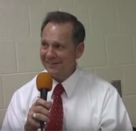 Former Chief Justice of the Alabama Supreme Court Roy Moore.